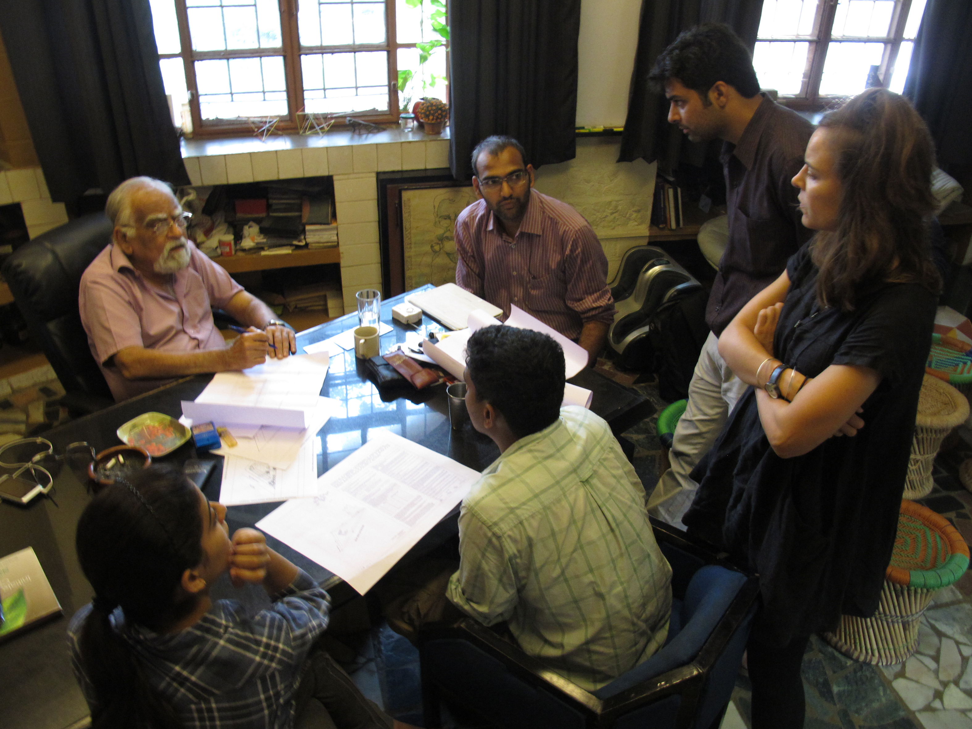 Anil Laul, Tanya Pahwa, Siddharth Ravishankar, Clem Blakemore, Anshu Ahuja discussing bamboo structural system for Project Hariharpur